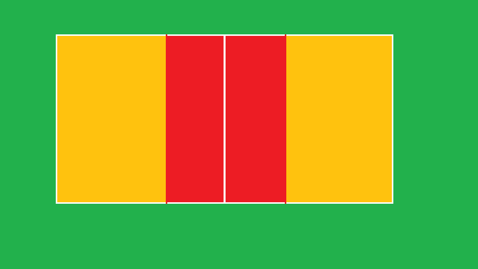 front zone of volleyball